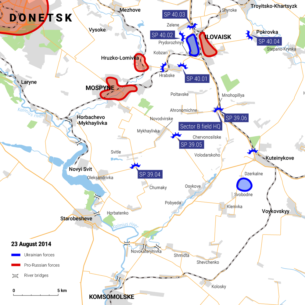 Ilovaisk battle, 29 August 2014